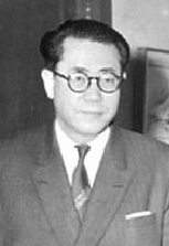 This is Cropped Image from a Larger Image Where President Rhee Syng Man is Meeting Arthur Dean, Special Advisor to the President of the United States